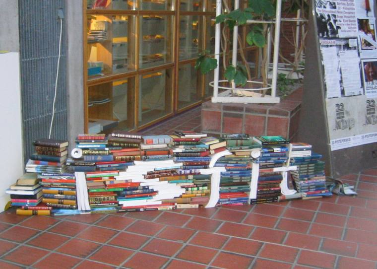 A bookpile at the NTNU University of Trondheim during the International Student Festival in Trondheim 2005.